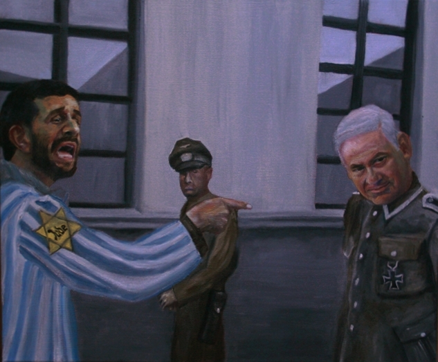 Mahmoud Ahmadinejad, depicted as a prisoner accuses Benjamin Netanyahu depicted as a Nazi.